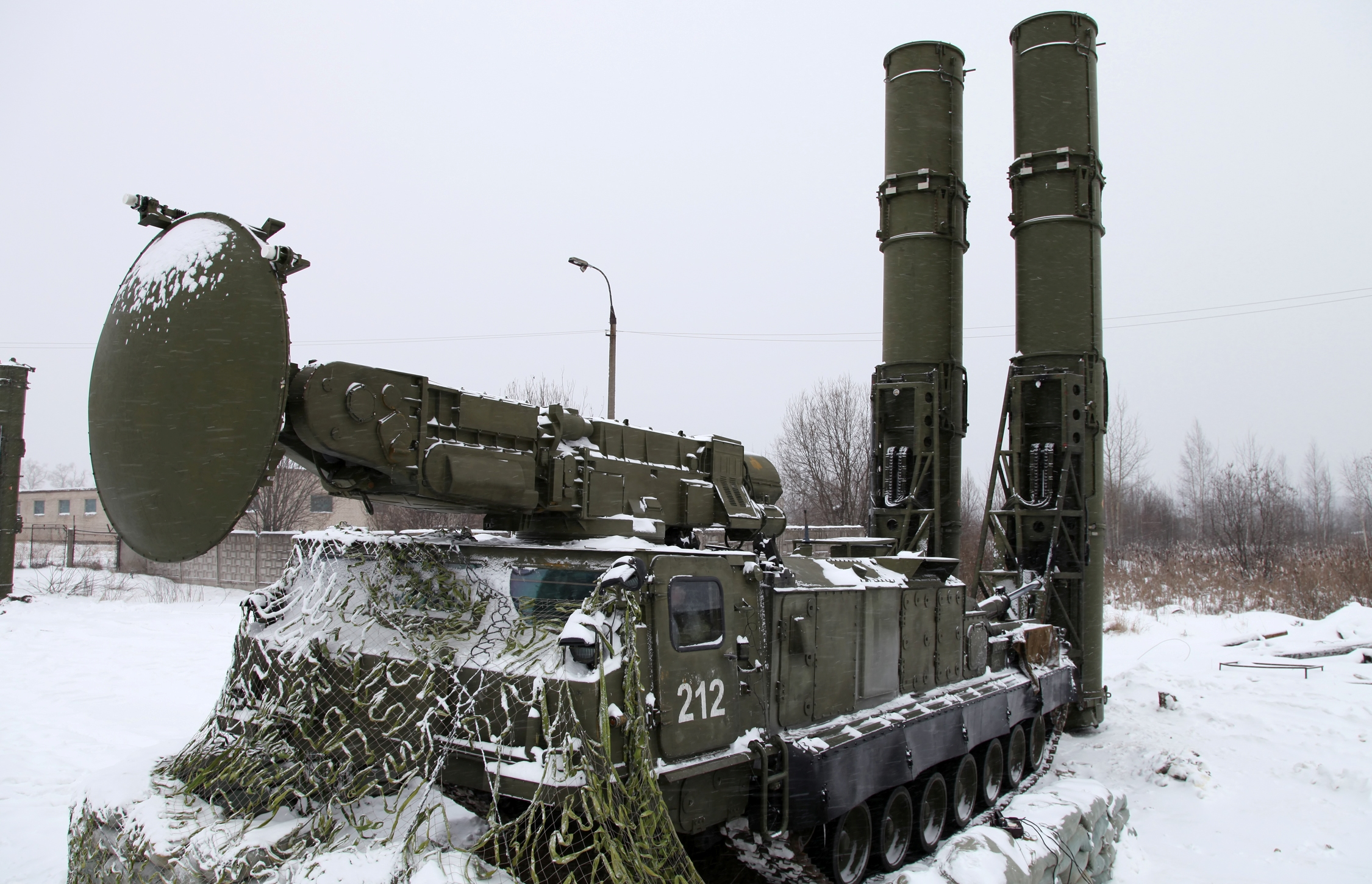 The 202nd Air Defence Brigade in the Western Military District in Russia. This air defence brigade is equipped with S-300V-SAMs. This brigade received these systems in 1989.